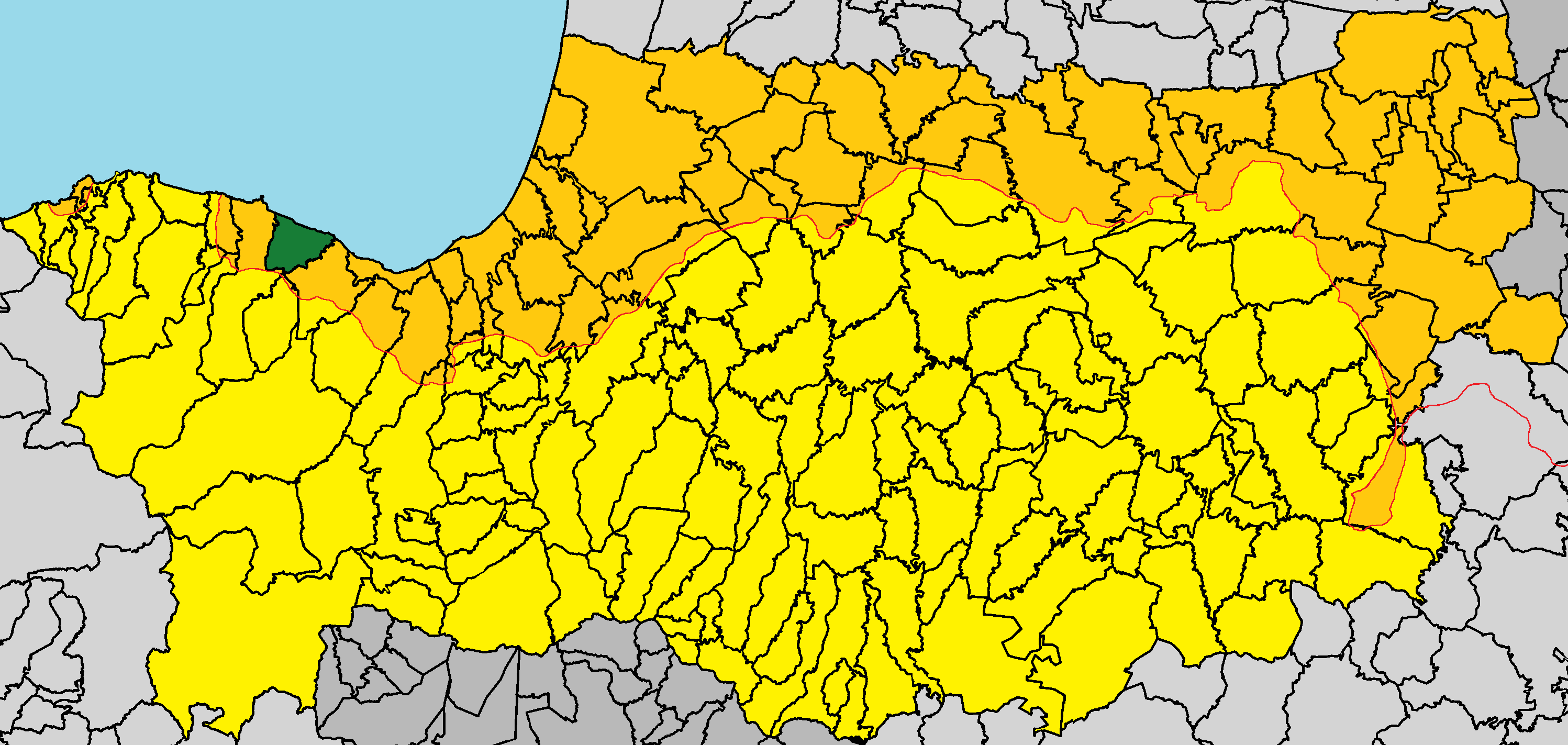 Loutros, Cyprus in Nicosia District (de jure).